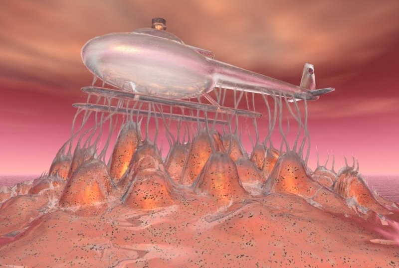 A mimoid impersonating a helicopter.